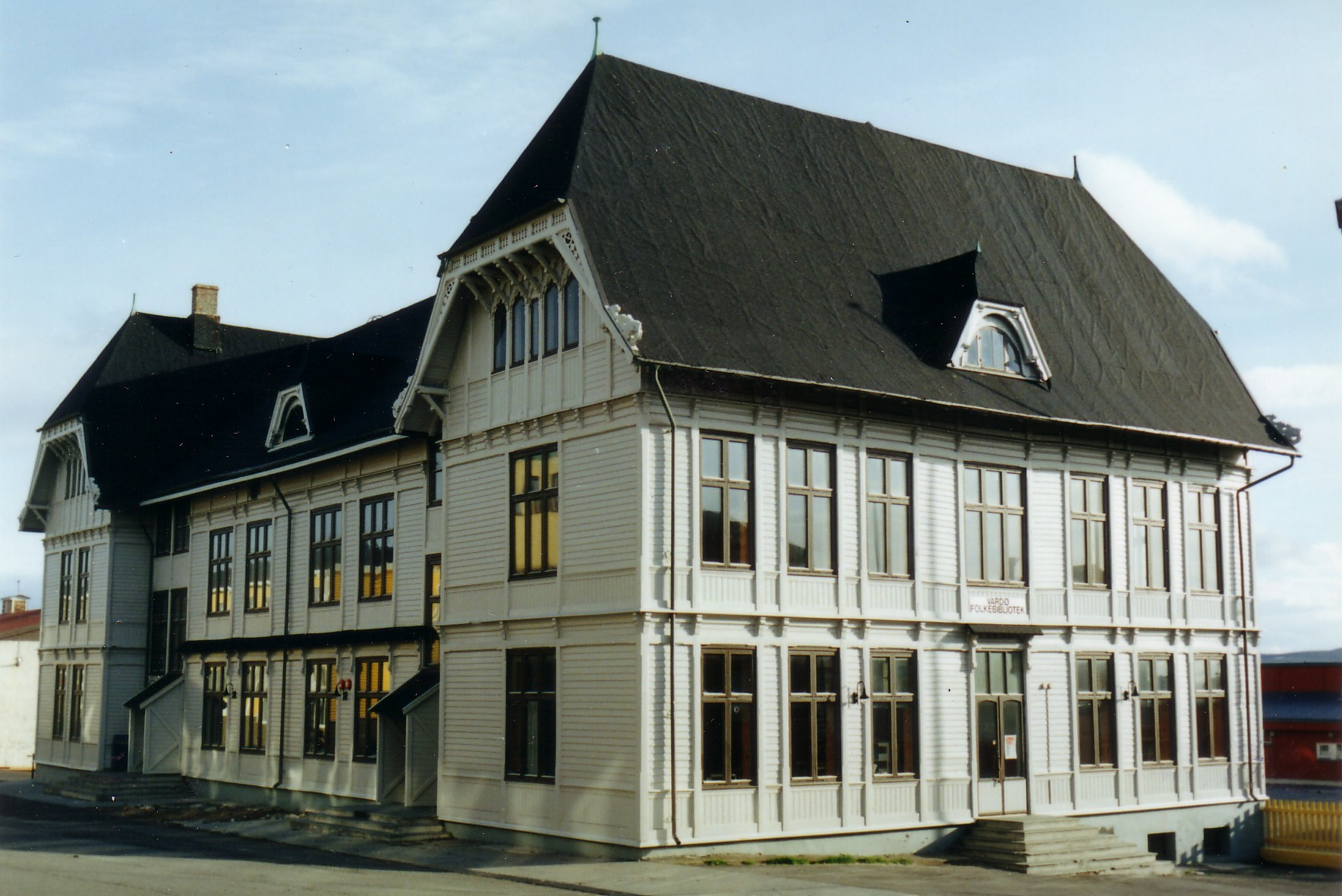 The library of Vardø in Finnmark, North Norway. The building was originally the city's primary school, built in 1888. Architect: Herman Major Backer.